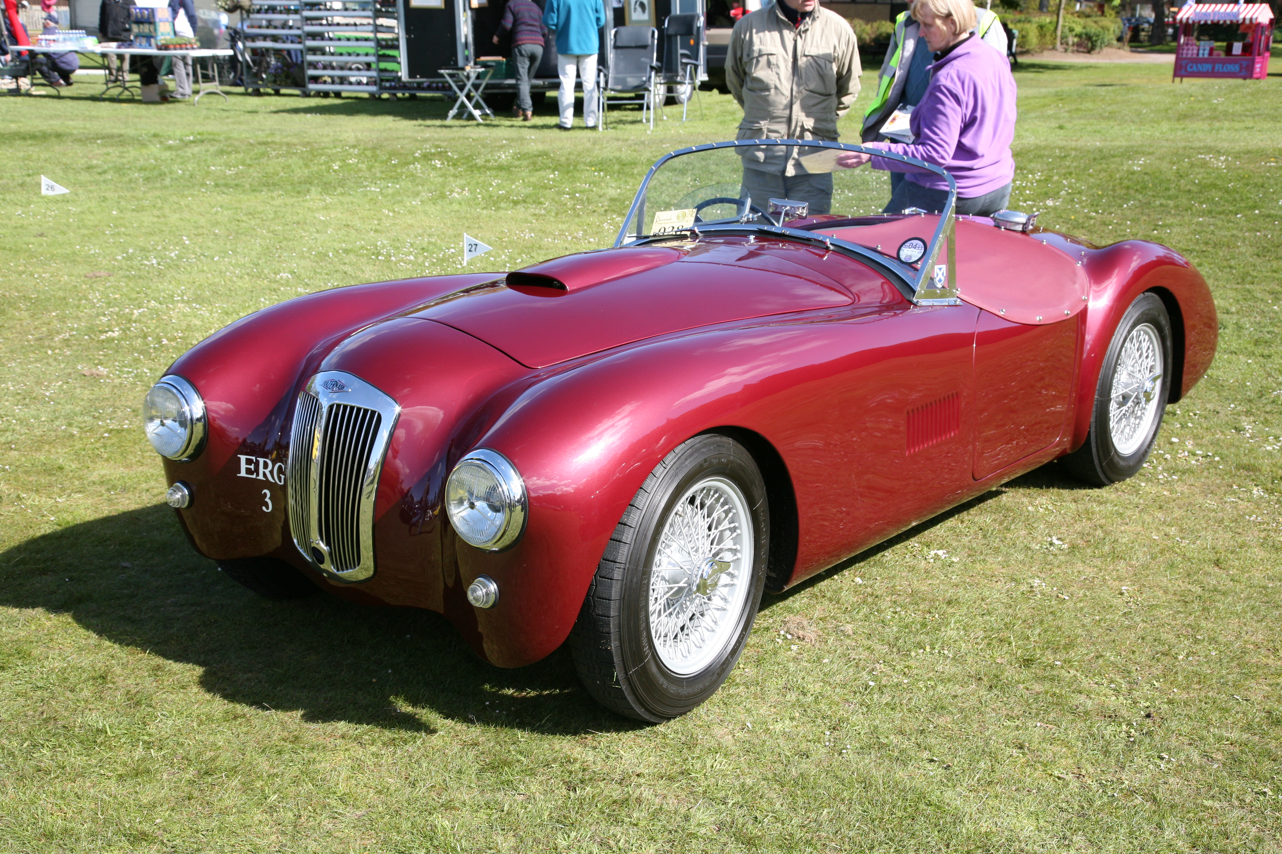 Frazer Nash Mille Miglia (DVLA) first registered Year of manufacture 1956, 1971cc